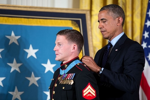 Image of Kyle Carpenter receiving the Medal of Honor from U.S. President Barack Obama